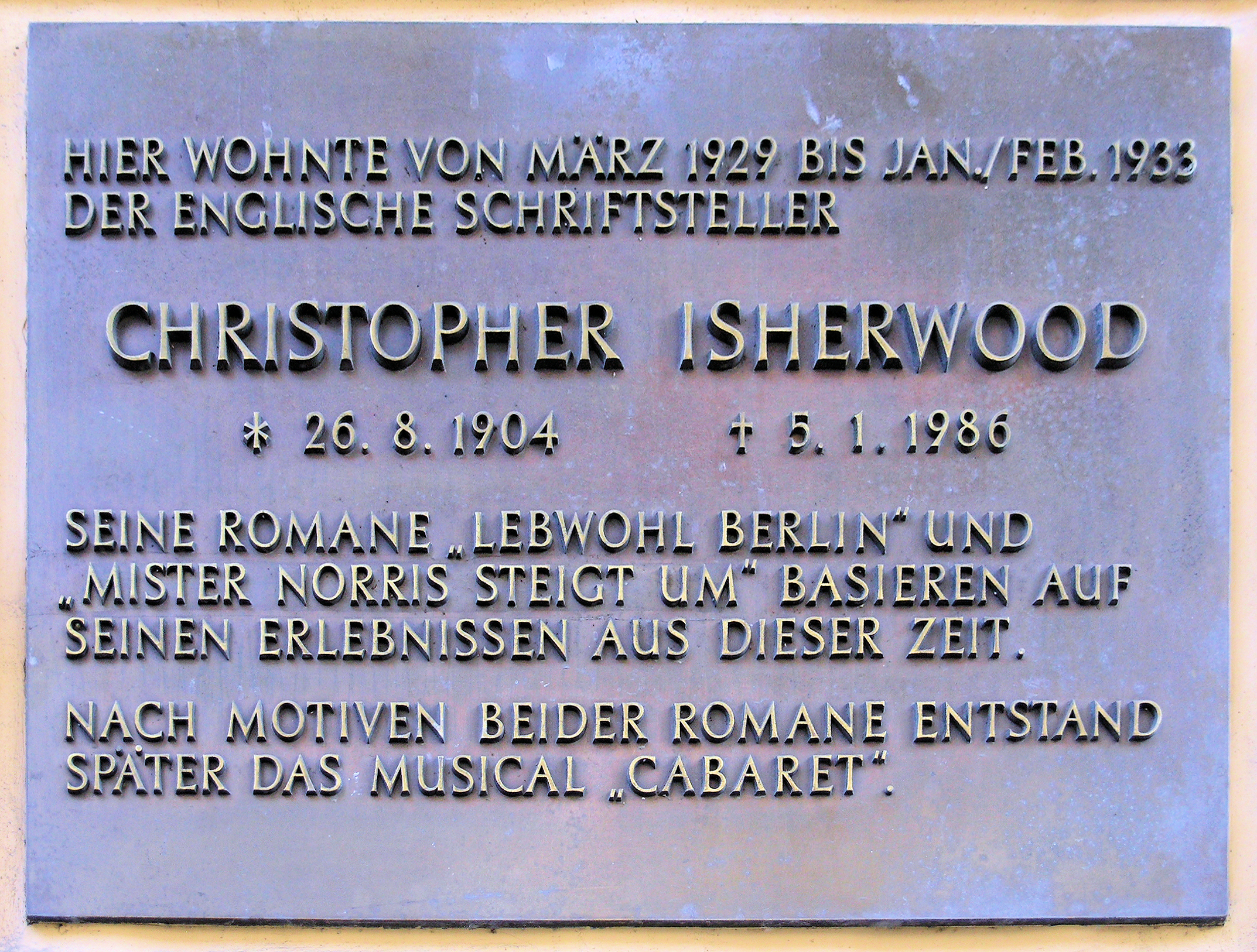 Memorial plaque, Christopher Isherwood, Nollendorfstraße 17, Berlin-Schöneberg, Germany Koordinate:52°29′52″N 13°21′5″E / 52.49778°N 13.35139°E